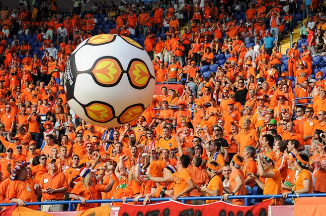 UEFA Euro 2012 match between Netherlands and Denmark that took place in Kharkiv. Final result was 0:1 (Krohn-Delhi)